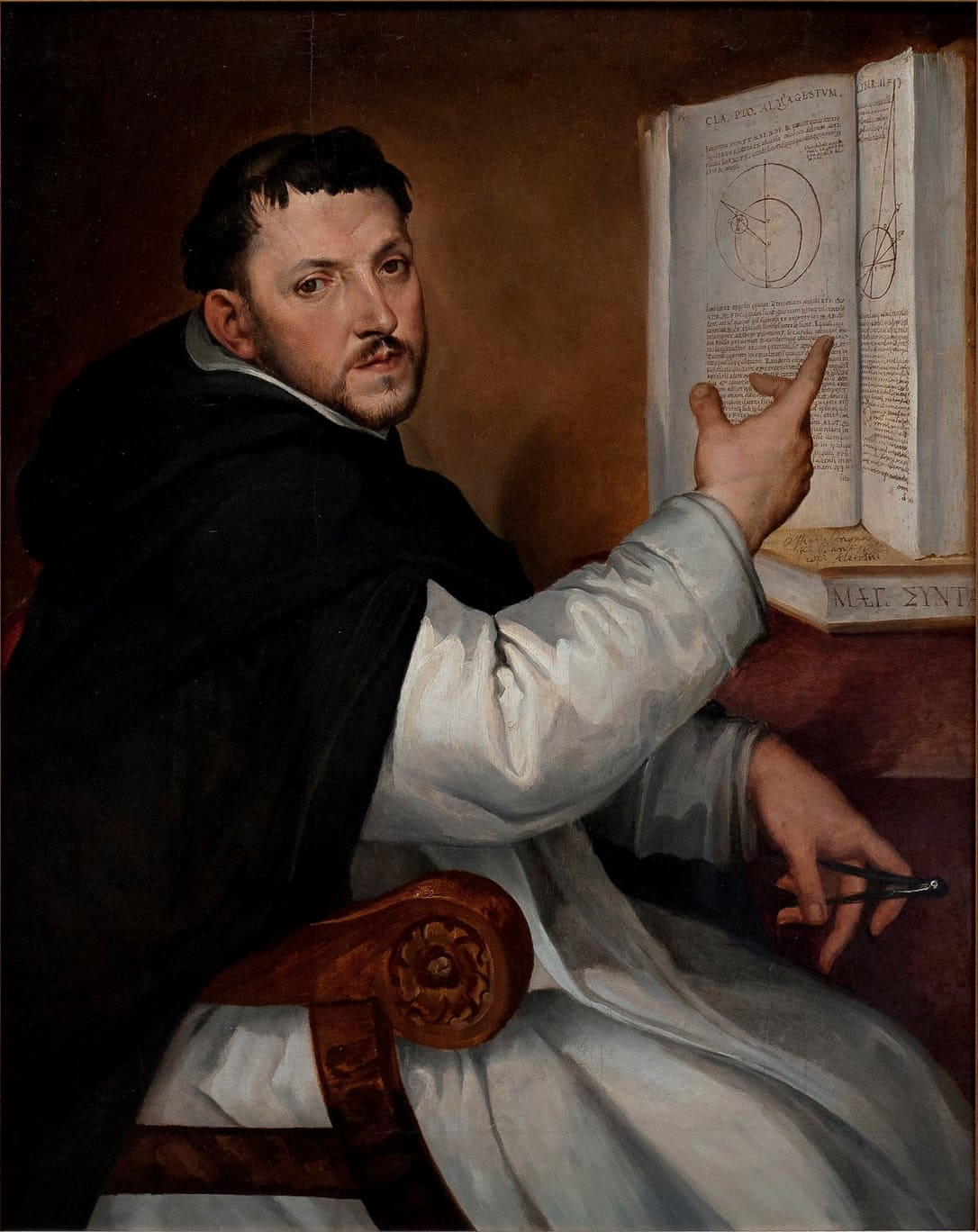 Portrait of Ignazio Danti